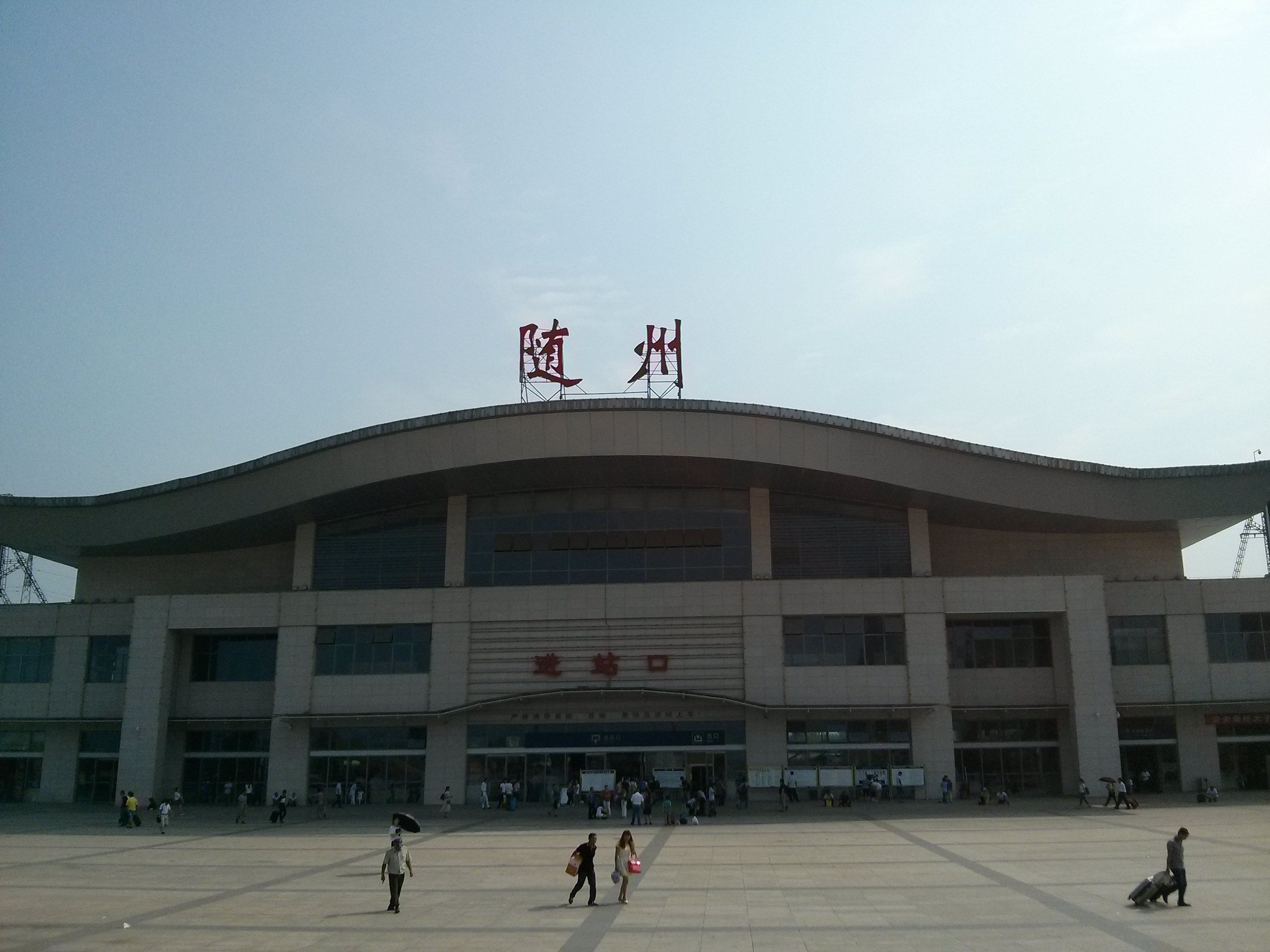 Suizhou Railway Station